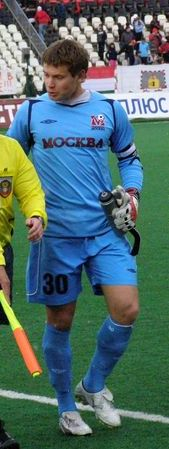 Yuri Zhevnov